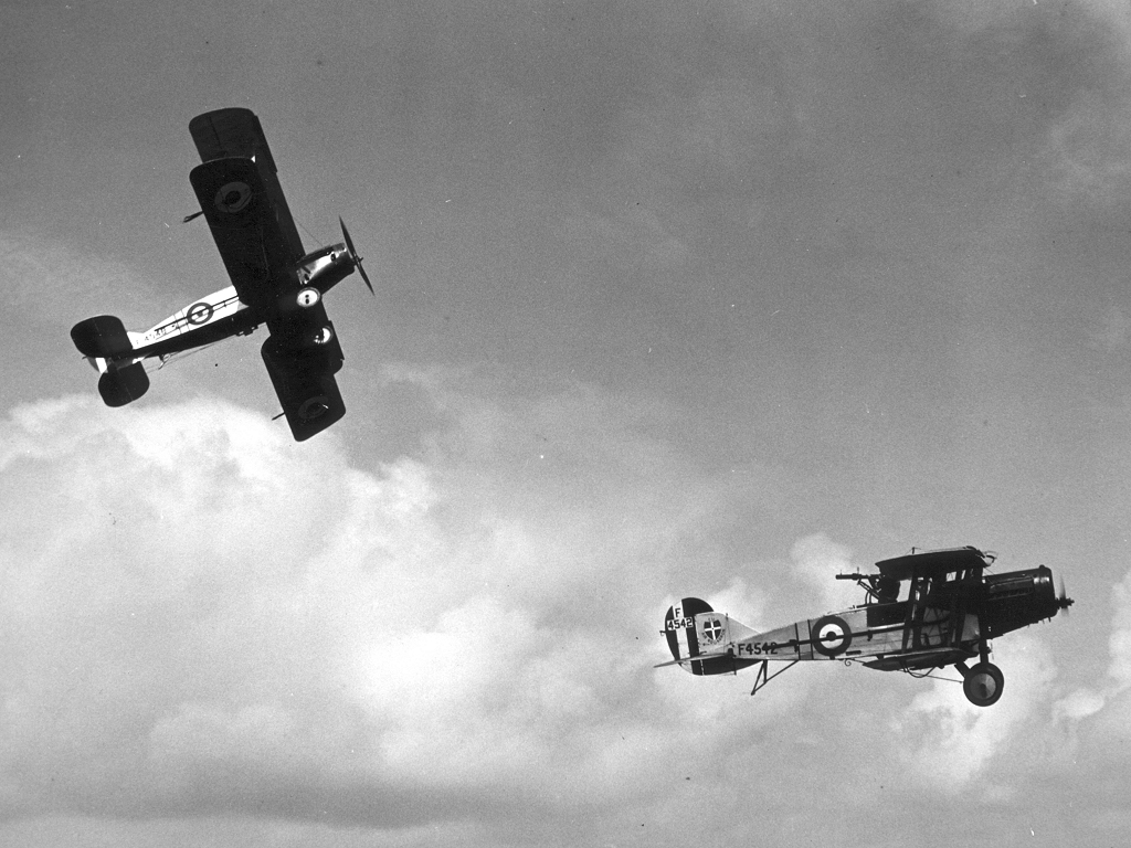 Two Royal Air Force Bristol F2B Fighters in 1920s.